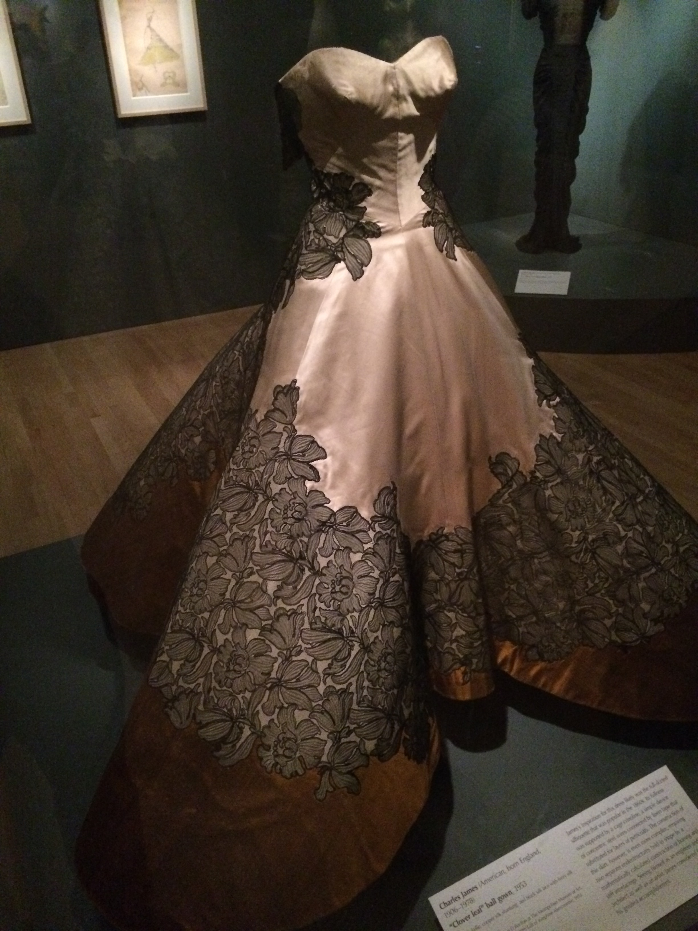 "Clover Leaf", silk dress designed by Charles James, 1953.From the Brooklyn Museum Costume Collection at the Metropolitan Museum of Art, exhibited during High Style: The Brooklyn Museum Costume Collection at the Legion of Honor Museum, San Francisco.Brooklyn Museum Costume Collection at The Metropolitan Museum of Art, Gift of the Brooklyn Museum, 2009; Gift of Josephine Abercrombie, 1953.source